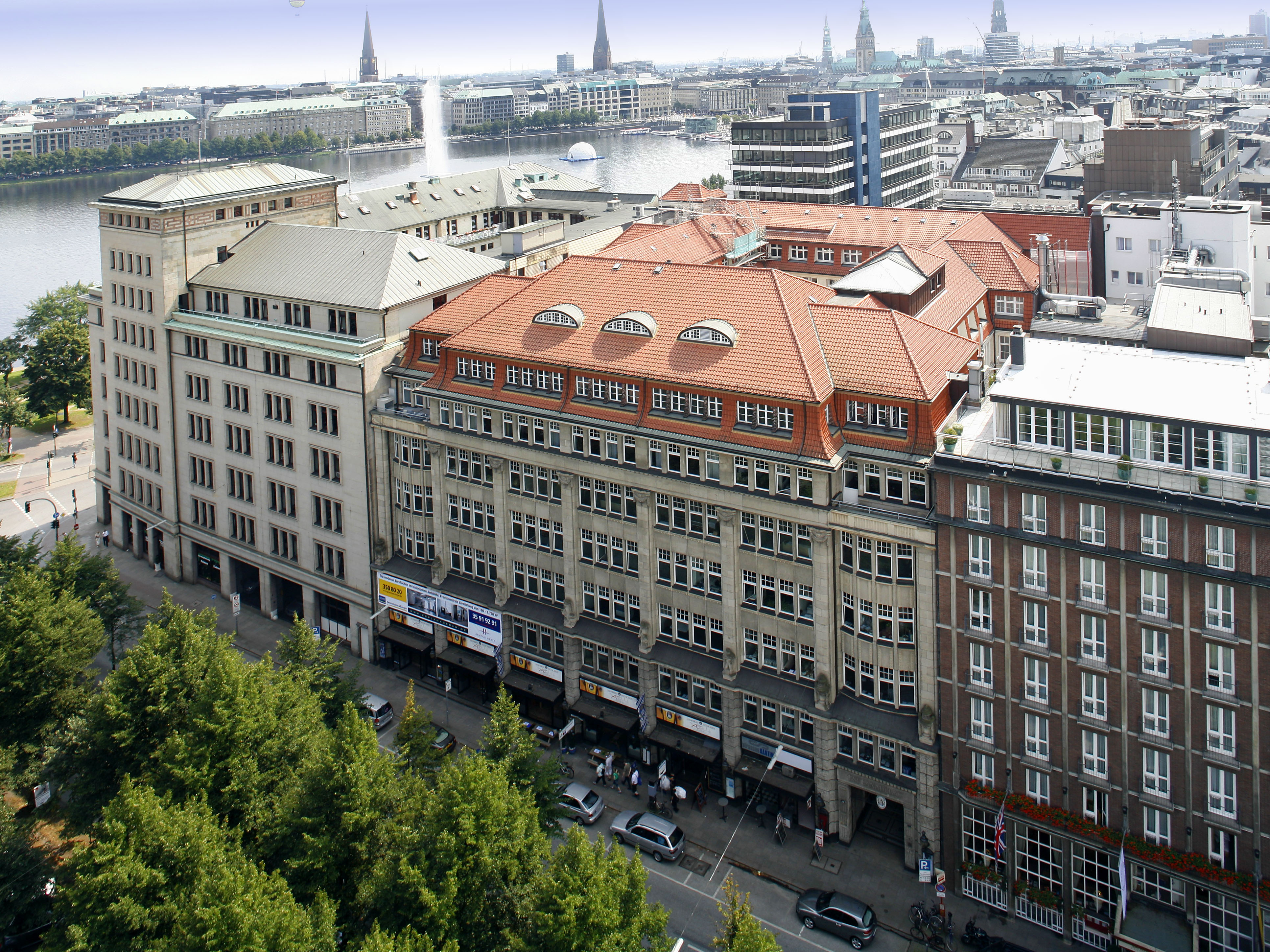 VDR headquarters in Hamburg